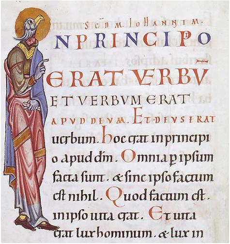 fol. 10v from Perikopenbuch von St. Erentrud